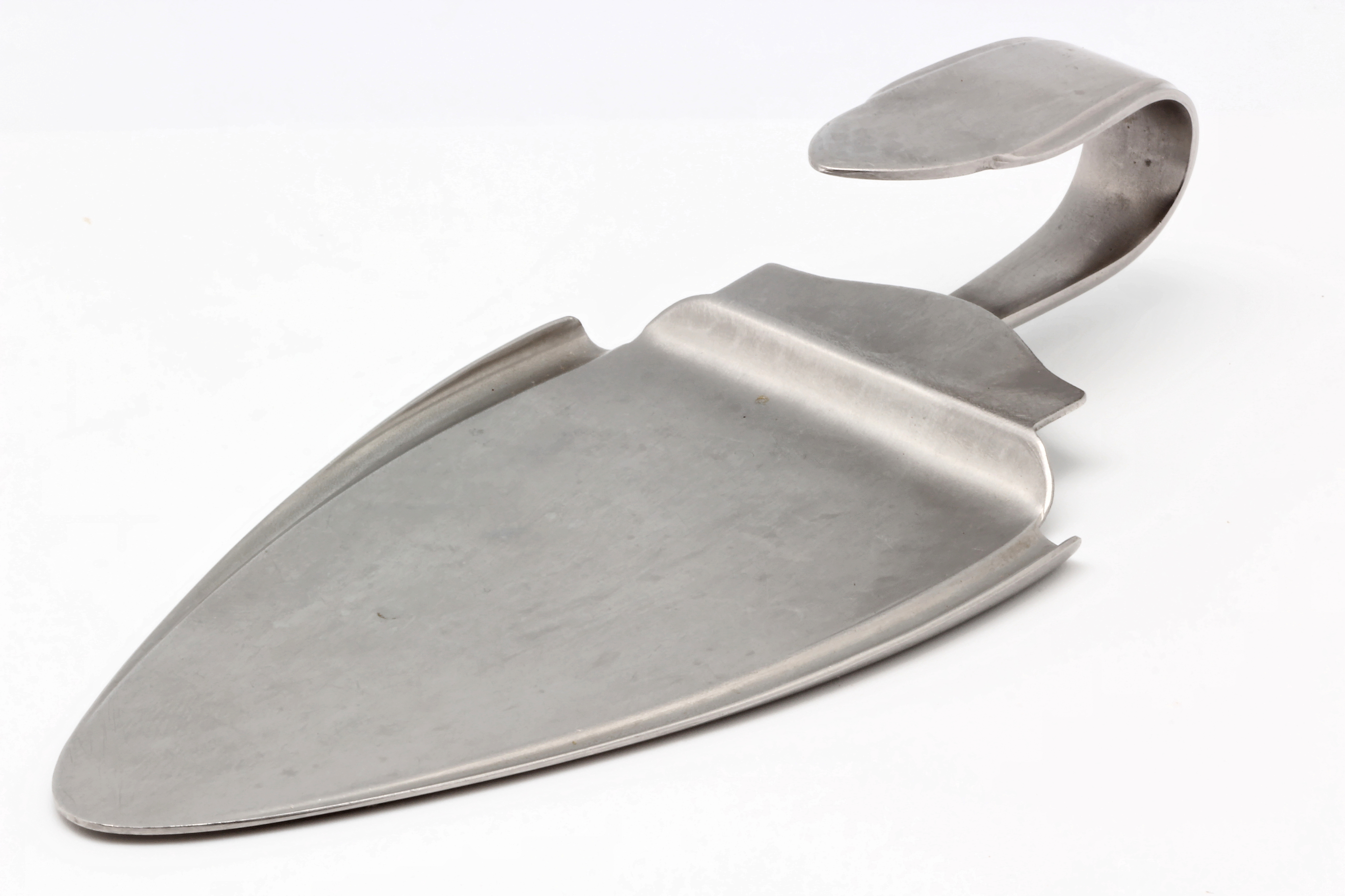 cake shovel